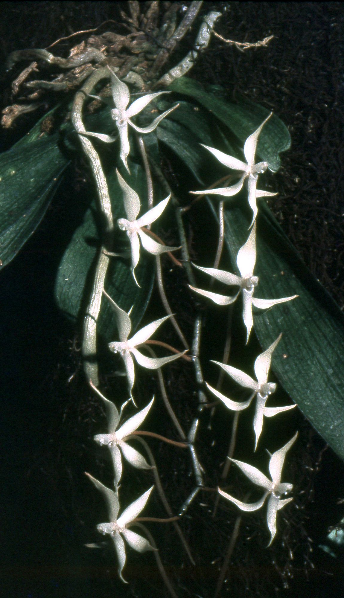 Aerangis thomsonii